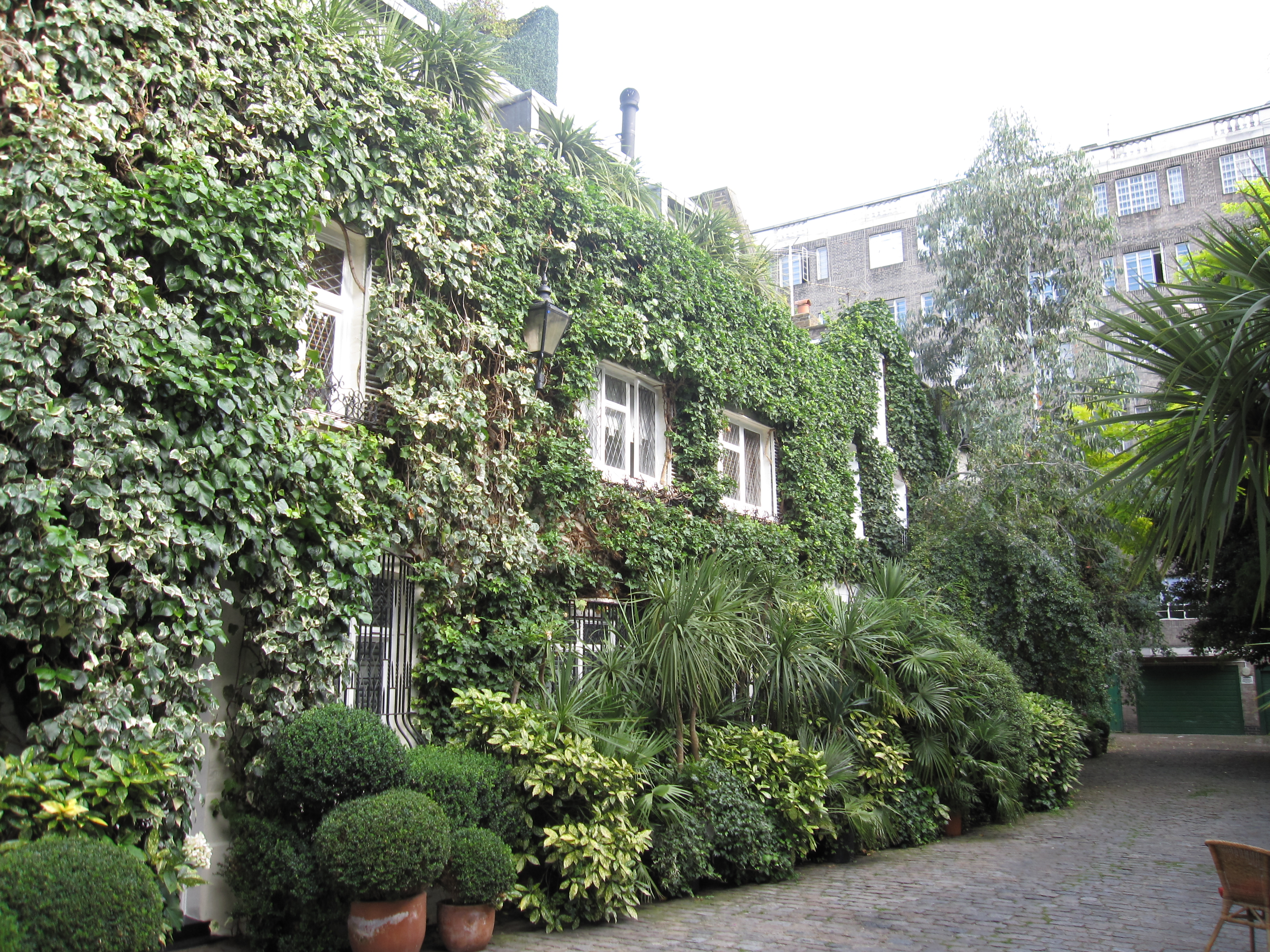 18 Albion Mews in London.